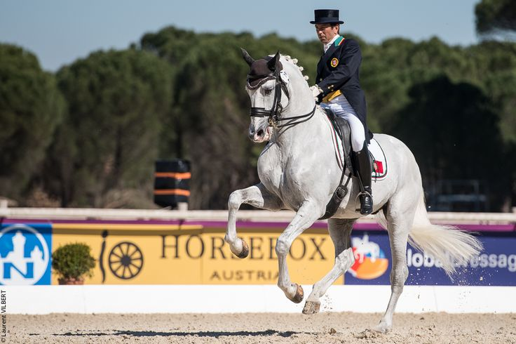 Carlos Pinto, cavalier dresseur international dressage